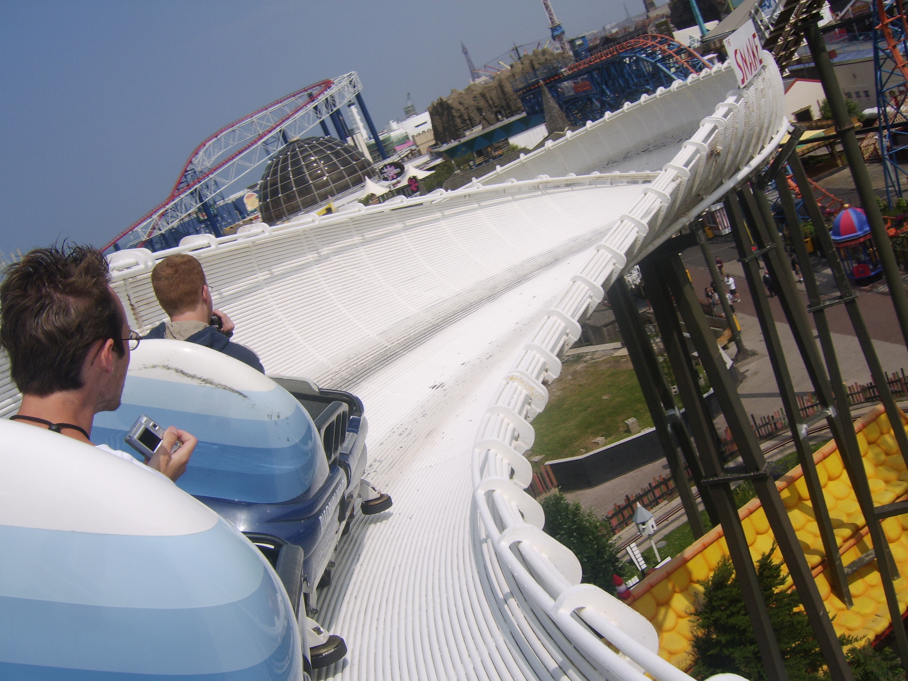 Avalanche, a Bobsled roller coaster at Blackpool Pleasure Beach Taken with permission from BPB's public relations department